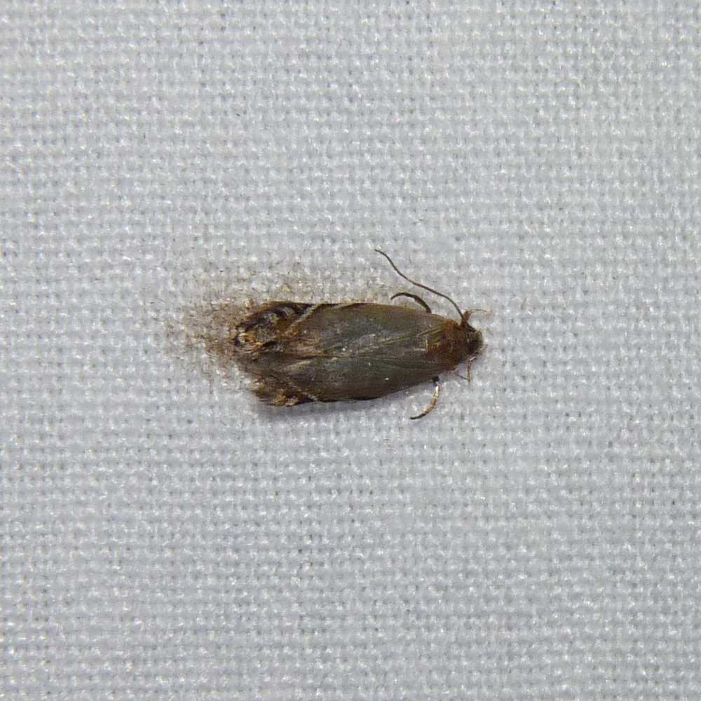 Please let me know if I'm wrong about the ID. Battaristis concinusella – Hodges#2225 BugGuide / MPG